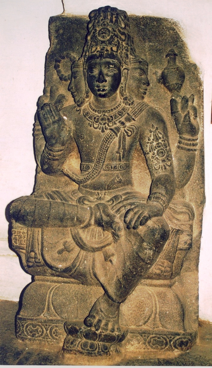 Brahma and Prajapati, Government Museum Chennai, India